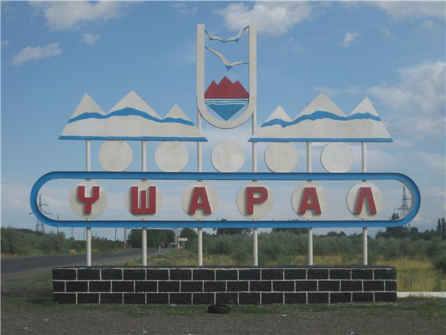 This is a my countries picture.